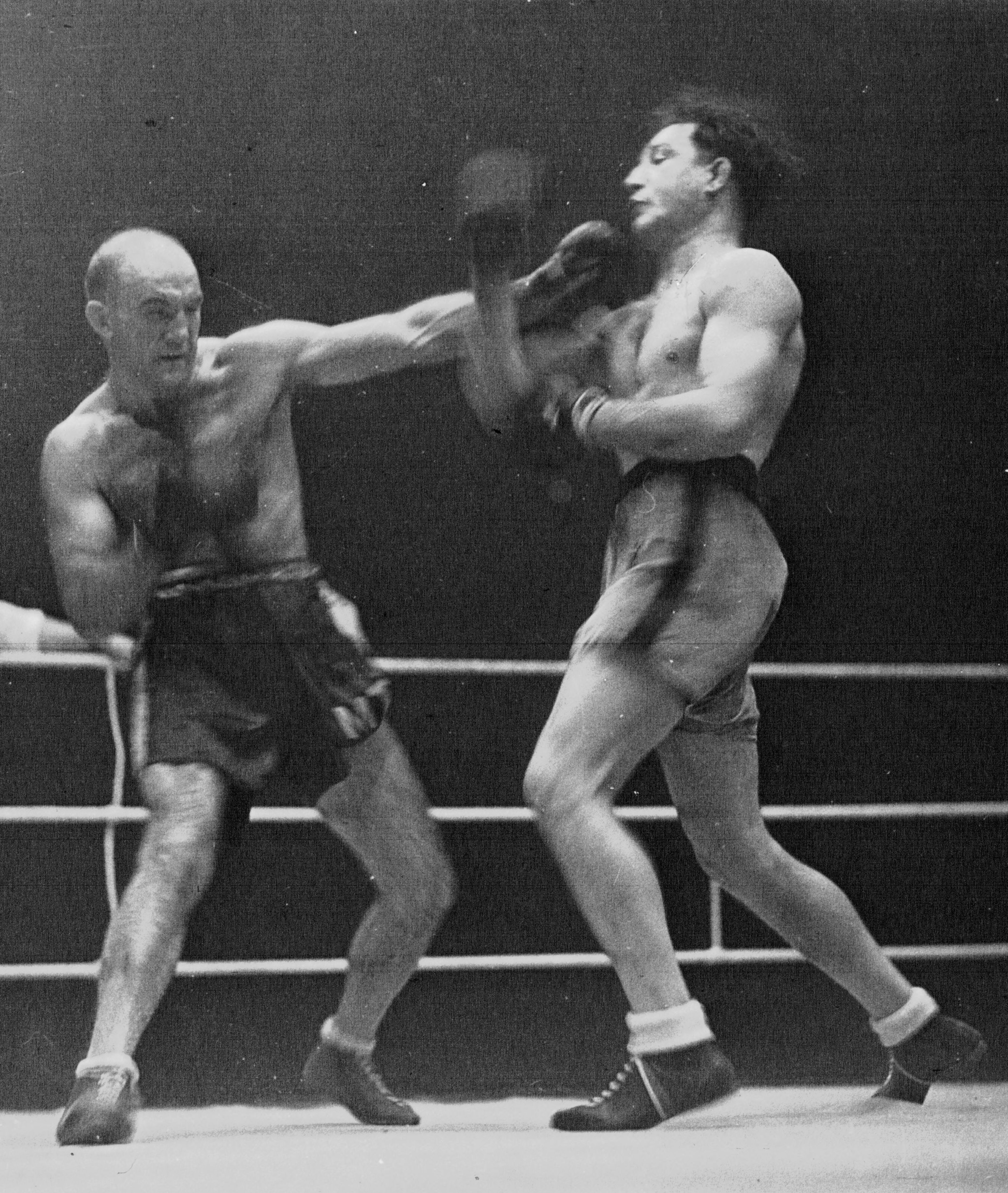 Marcel Thil (left) vs. Jock McAvoy (right) in 1935.